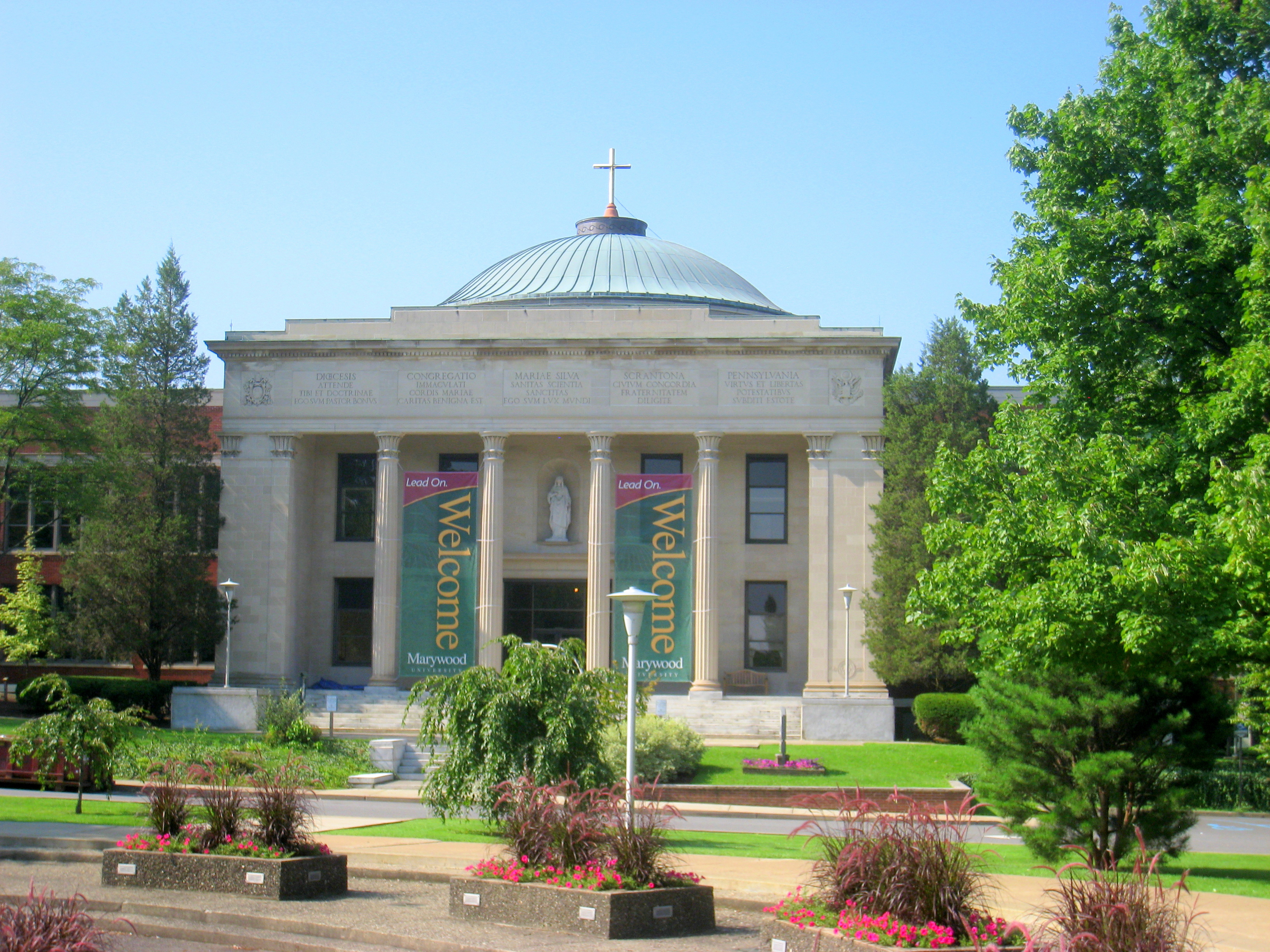 Marywood University Arboretum, Marywood University, Scranton, Pennsylvania, USA.